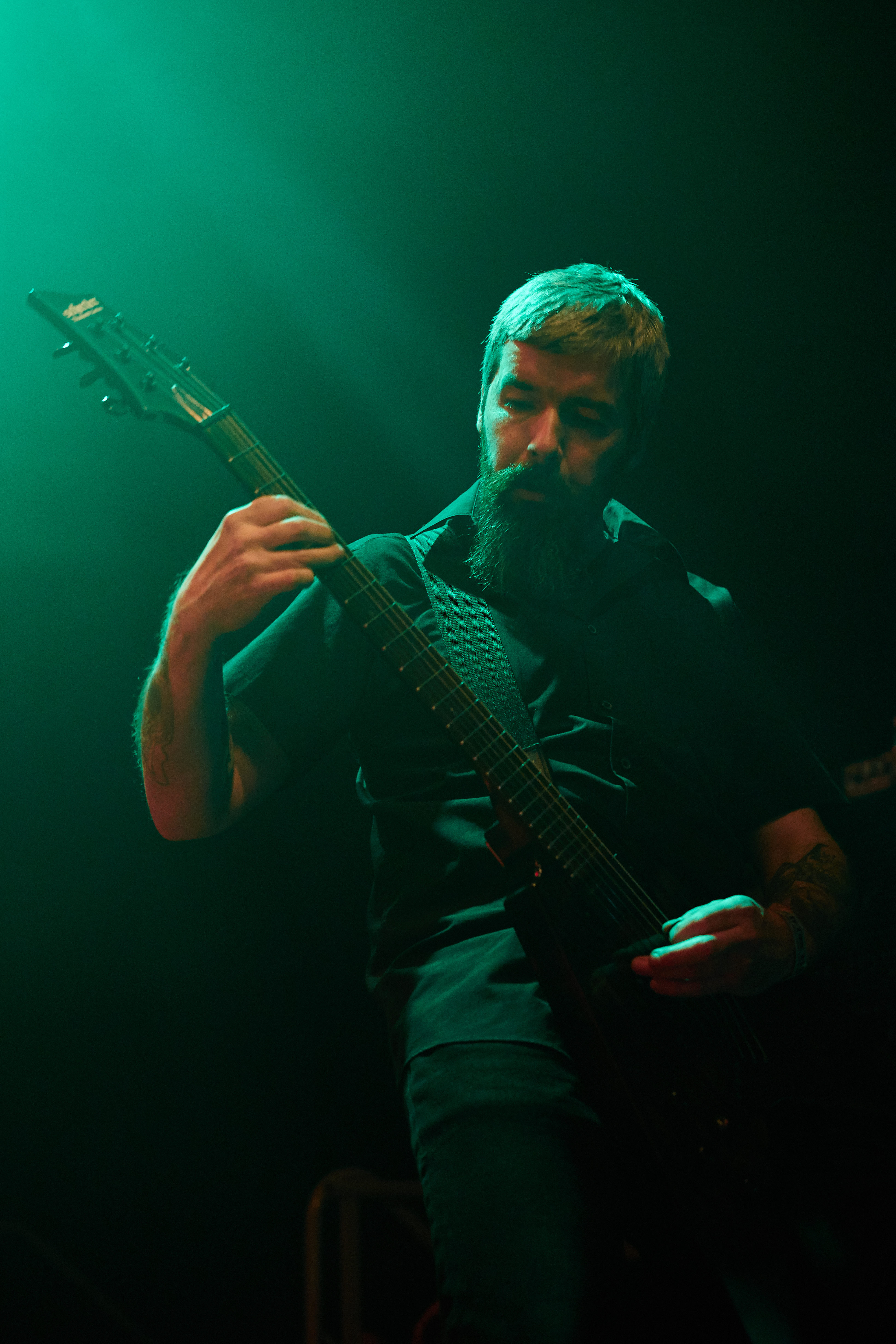 British band My Dying Bride at Hammer of Doom Festival, Würzburg, Posthalle, 21.11.2015 Festivalsommer This photo was created with the support of donations to Wikimedia Deutschland in the context of the CPB project "Festival Summer". Personality rights warning Although this work is freely licensed or in the public domain, the person(s) shown may have rights that legally restrict certain re-uses unless those depicted consent to such uses. In these cases, a model release or other evidence of consent could protect you from infringement claims.